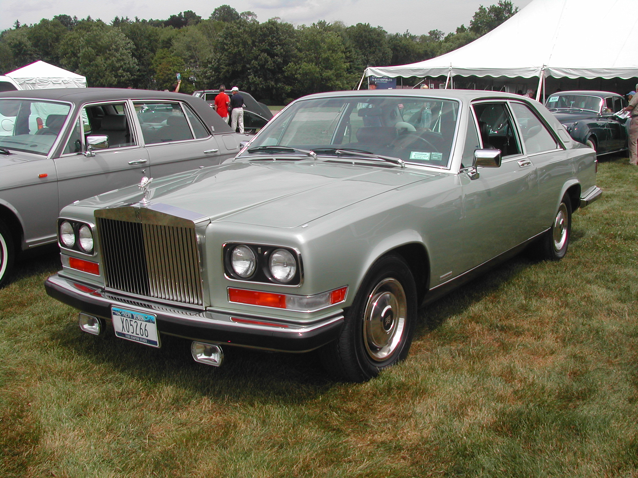 1982 Rolls-Royce Camargue Photographed by Jagvar at the Bonhams & Butterfields Auction in Darien, Connecticut on July 29, 2005.